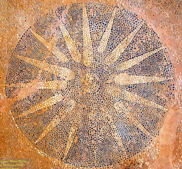 Picture from the archaeological site of Gitanae, Epirus, GREECE.